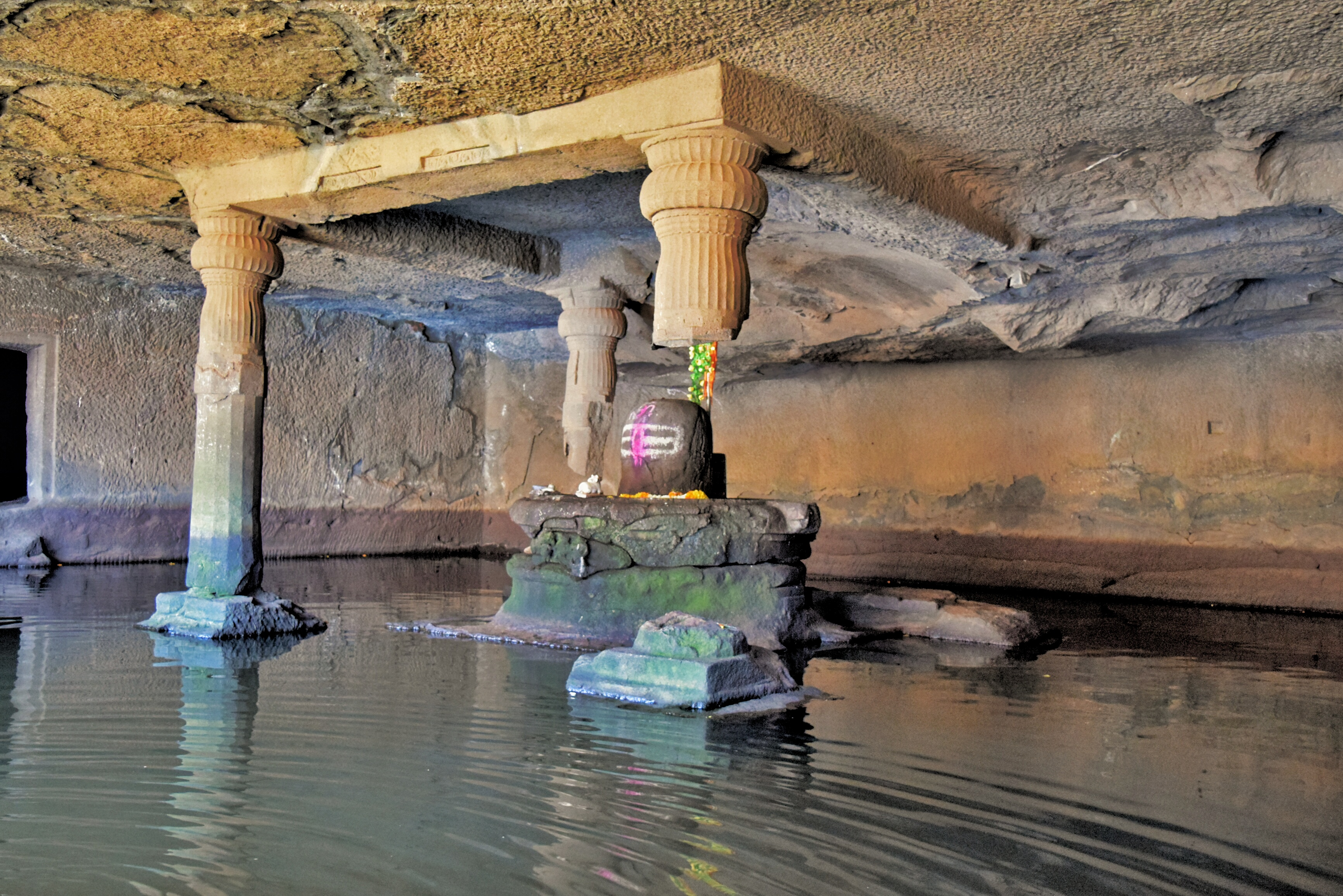 Kedareshwar Cave Temple is located at Harishchandragad, a hill fort in Ahmednagar district. The fort is a popular trekking location. Kedareshwar Cave Temple is much different from other temples. It is situated in a cave and also presence of water all year round makes the temple one of the unique temples not just in Maharashtra but in India as well. A Shiva Linga of about five feet is situated at the centre of the cave. One has to wade through waist deep and ice cold water to reach the Shiva Linga. Though there were four pillars surrounding the Linga, now there is only one pillar intact. Some believe the pillars to be symbols of yuga or time, namely, Satya, Tretha, Dwapara and the Kali Yuga. The present pillar is said to symbolise the last and final yuga, which is the present one, the Kali Yug. Thus a belief exists that when this last and remaining pillar breaks off, the world will come to an end. The walls of the cave are replete with sculptures and carvings. Kedareshwar Cave Temple is a must-visit for its unique built and the beliefs surrounding it.